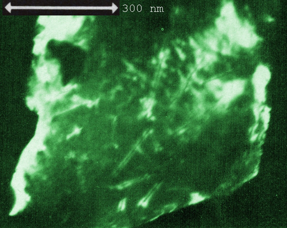 "Fresh" (latent or unetched) californium-252 fission tracks[1] in a chromite (FeCr2O4) grain from the Allende meteorite, showing up in a weak-beam darkfield TEM image which lights up the strain-fields around the 40Å-diameter track-damage cores. This work confirmed chromite's ability to record nuclear particle tracks in spite of its relatively low resistivity.